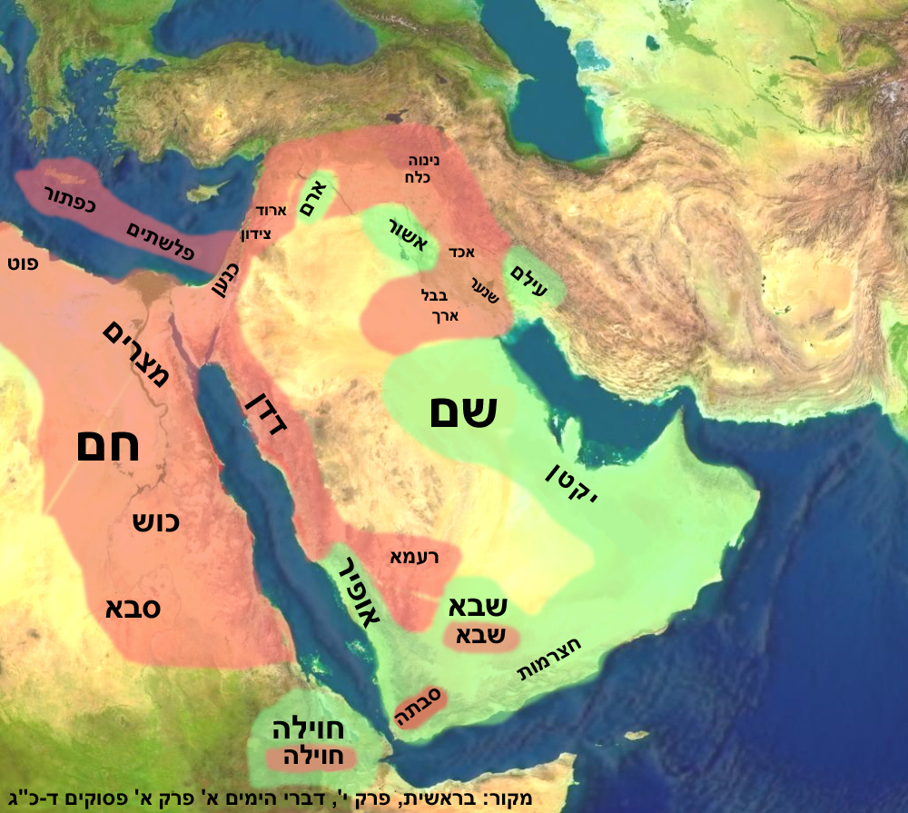 The Middle East through the eyes of the Ancient Israelites.